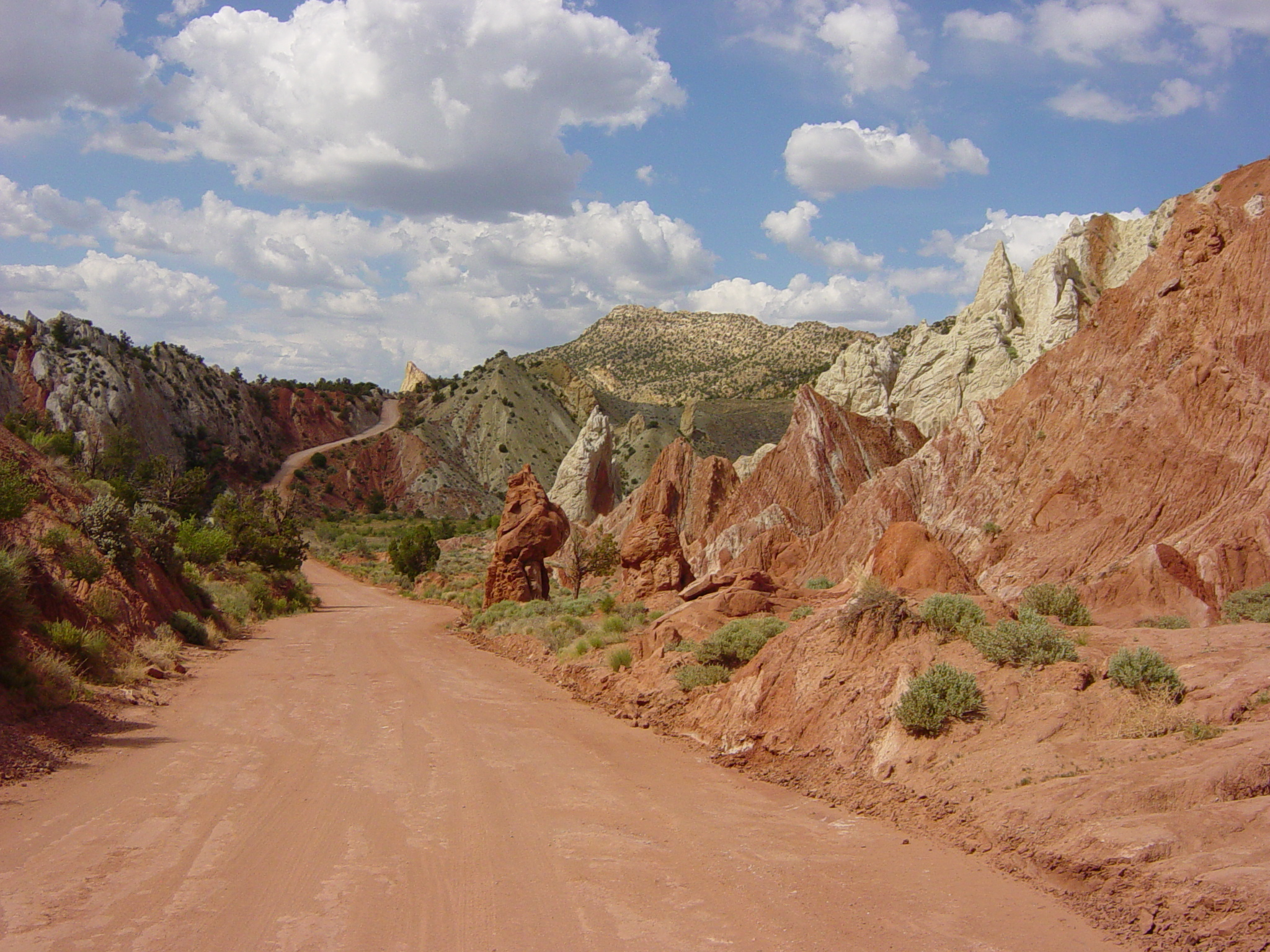 View north on the road through Cottonwood Canyon. Image by User:Leonard G.